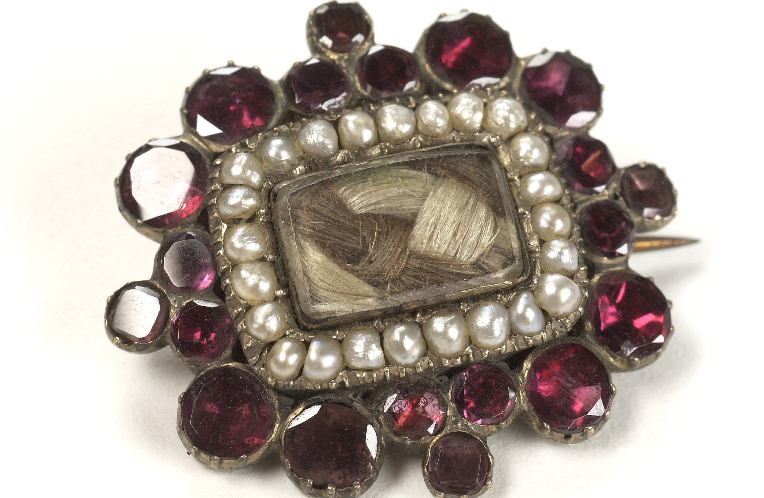 Mourning brooch containing the hair of a deceased relative. Wellcome Images Keywords: Victorian; Death; Jewellery; British